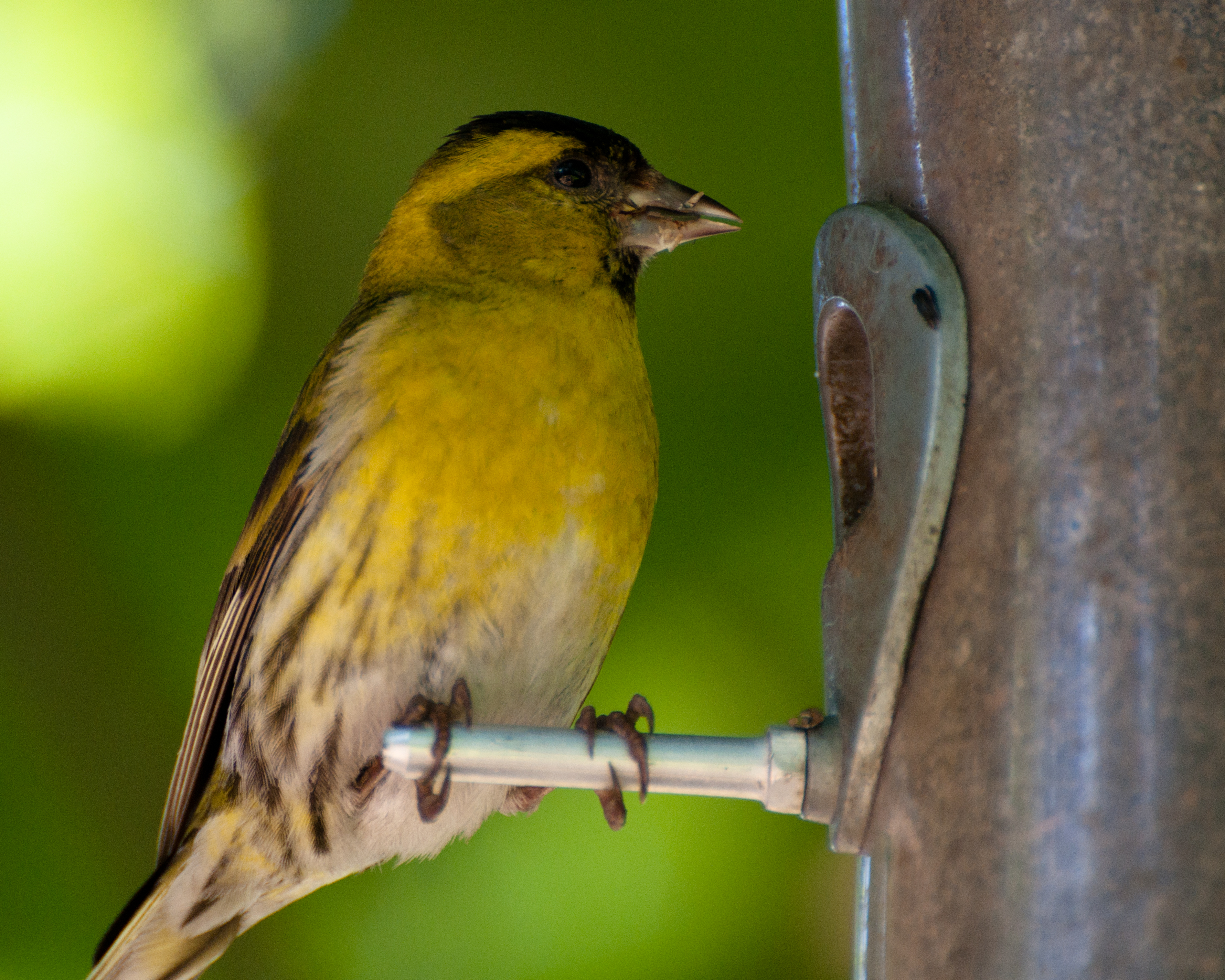 A male Eurasian Siskin eating from a bird feeder at Longshaw Estate, Peak District National Park, Derbyshire, England.